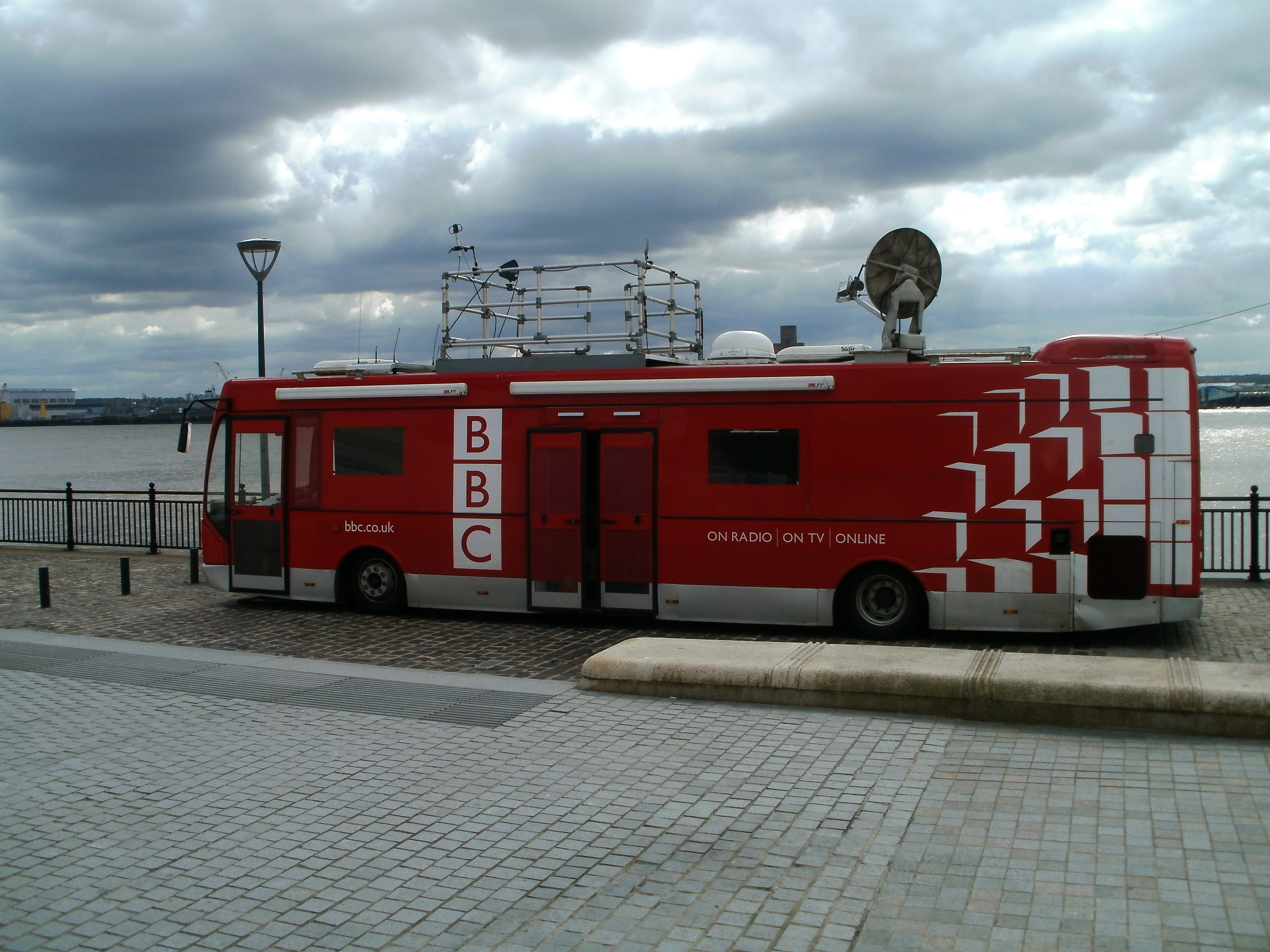 BBC OB Unit at Liverpool 24 May 2013